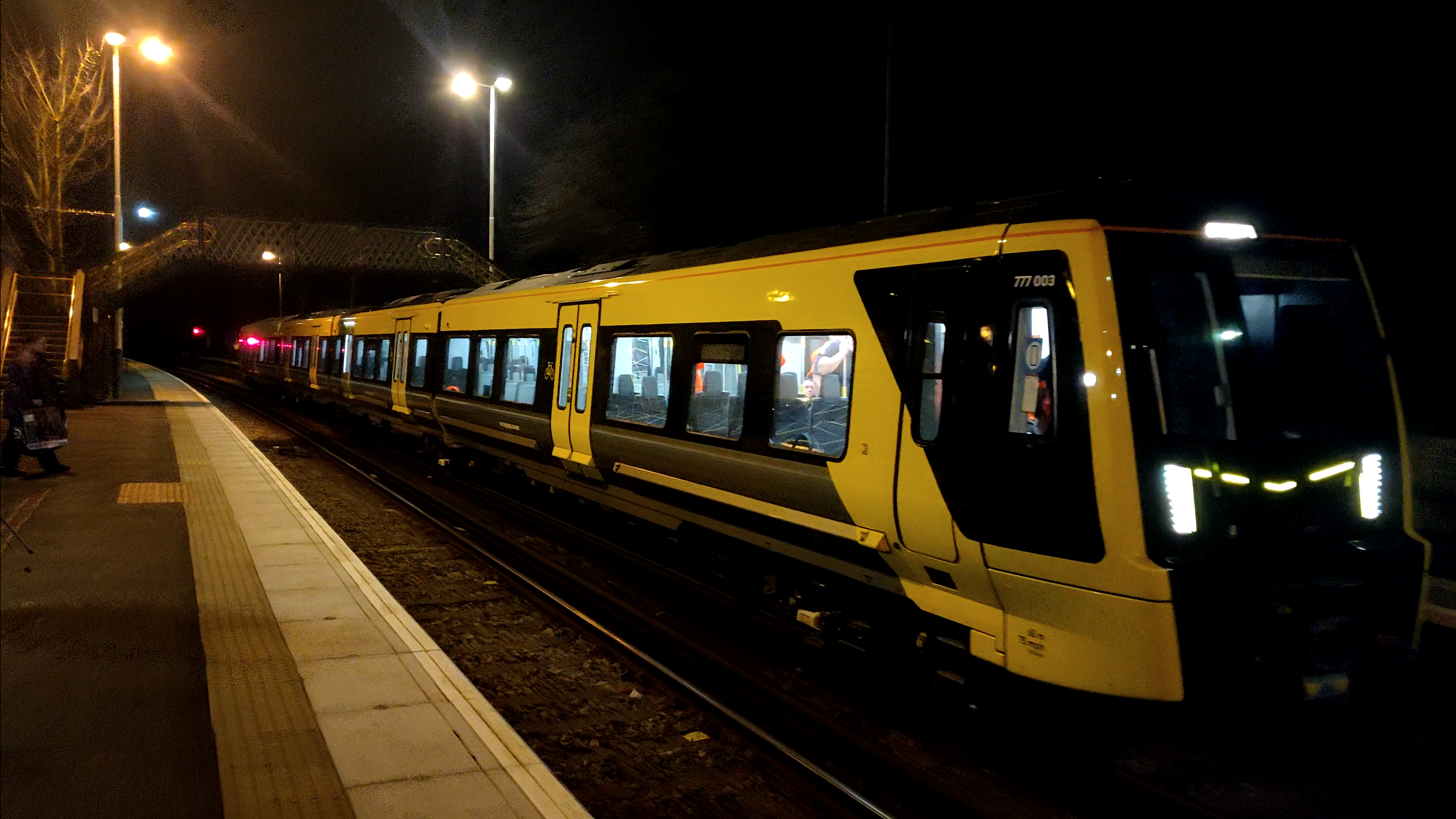 Class 777 003 on test at Rice Lane Railway Station 16/03/2020